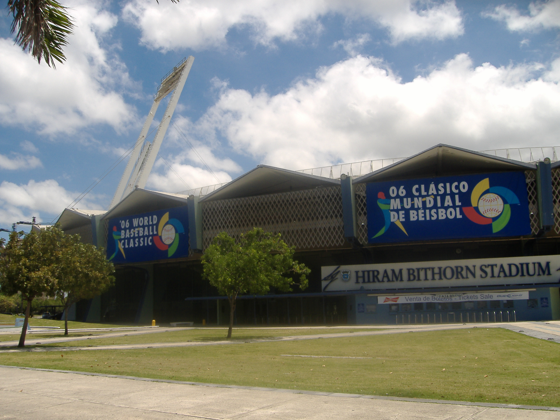 Picture of Hiram Bithorn Stadium in San Juan, Puerto Rico.